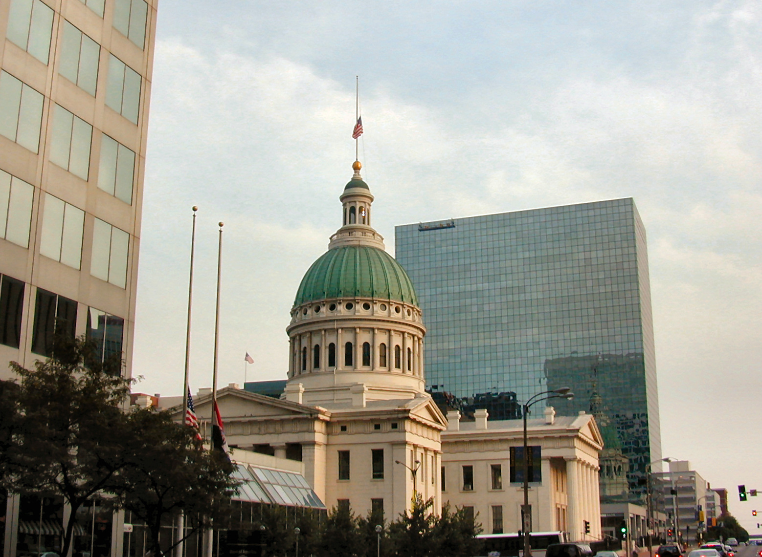 St. Louis: Old Court house Jan Kronsell, July 2004